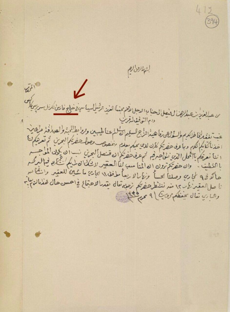 PERSIAN GULF in the letters of Saudi Kings Abdoul Aziz 1343H=1924